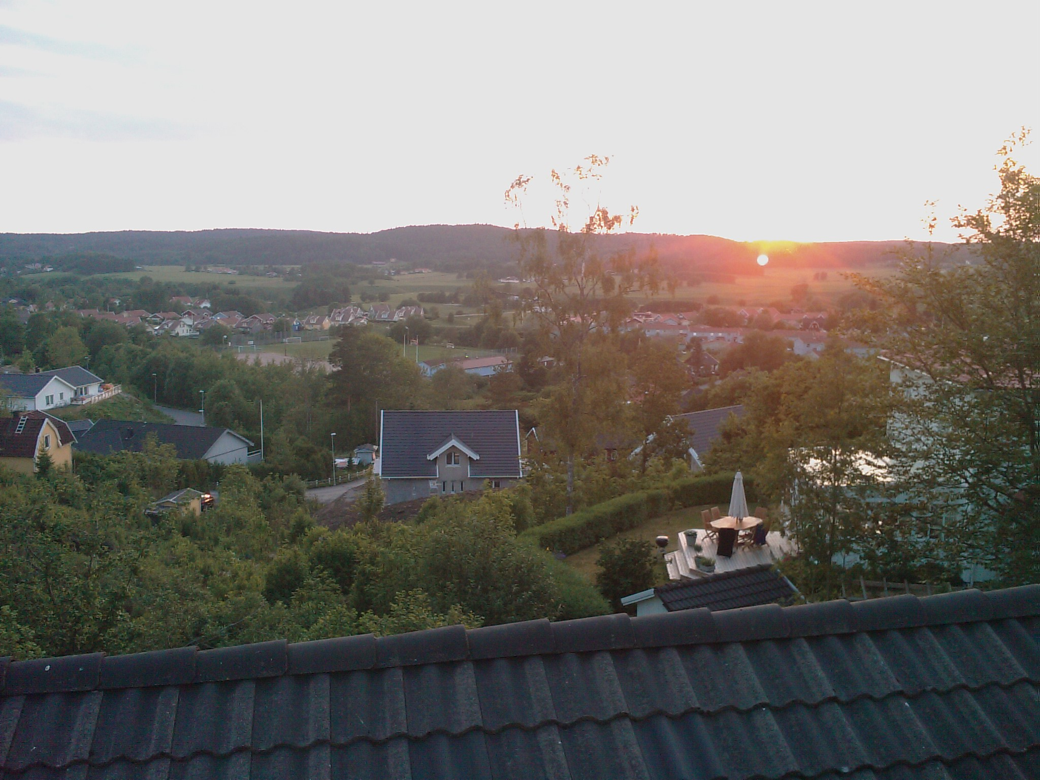 Olofstorp, Gothenburg, Sweden